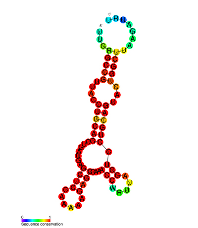 Image for RF02275 taken from Rfam database release 11. Nucleotide colouring indicates sequence conservation between the members of this family